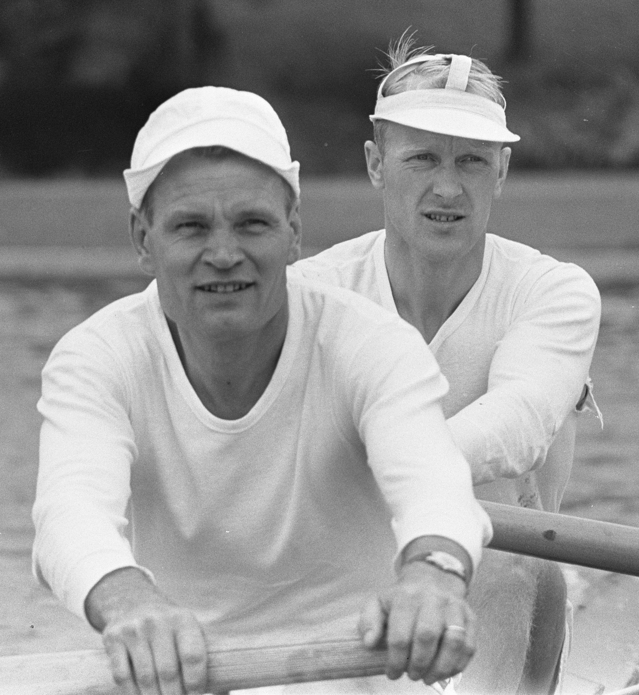 Training Europese roeikampioenschappen, Finse twee zonder stuurman